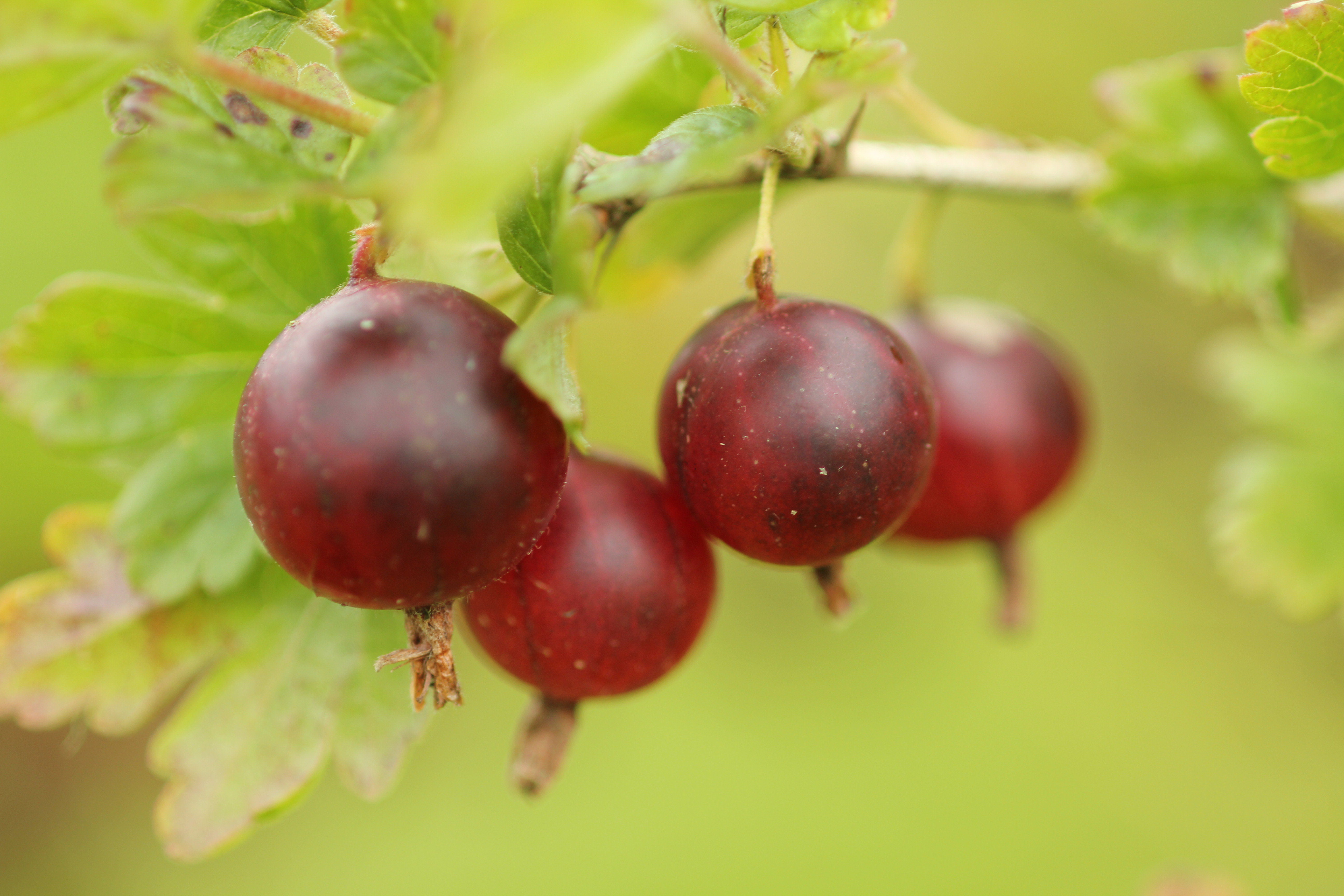 Red Goosberries